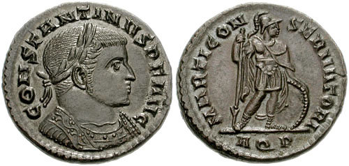 CONSTANTINE I. 307-337 AD. Æ Follis (22mm, 5.02 g) Aquileia mint. Struck 312-313AD. CONSTANTINUS PF AUG, Laureate and cuirassed bust right MARTI CON-SERVATORI, Mars standing right, holding spear and leaning on shield; AQP. RIC VI 139.